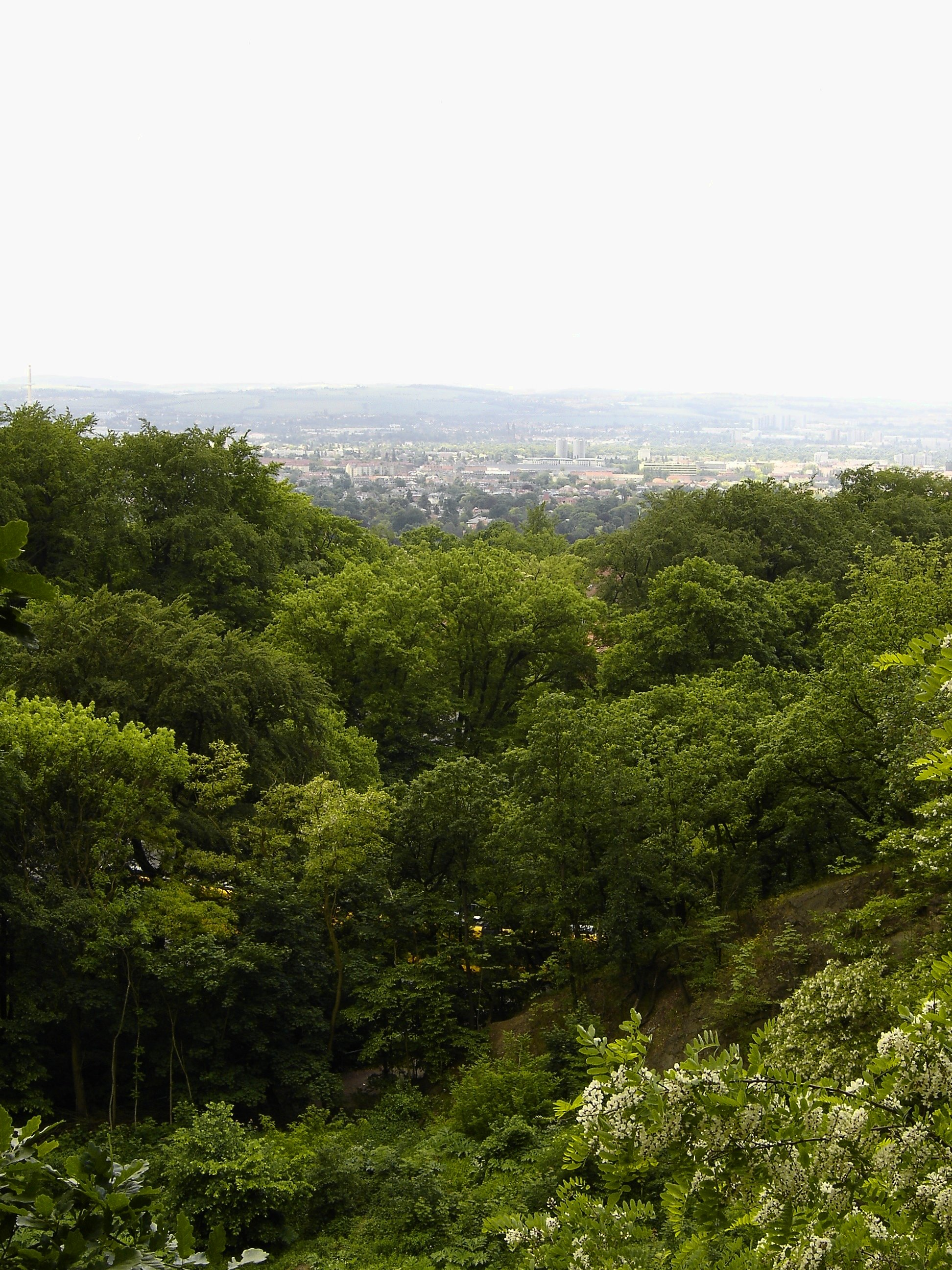 view from Mordgrund (part of the Dresdner Heide Forrest) over the eastern parts of Dresden. Note that there is a tram in foreground crossing the valley.